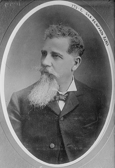 Bernardo Reyes (1850 – 1913), a General in the army of Mexico